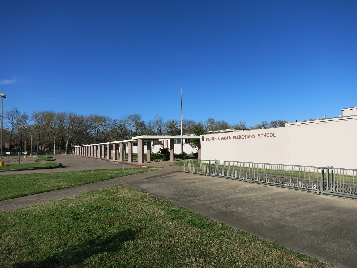 Photo shows the Stephen F. Austin Elementary School at 1630 Pitts Road, Richmond, TX 77469. It is part of the Lamar Consolidated Independent School District.